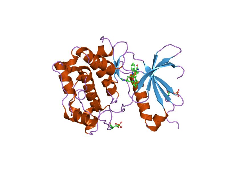 Cartoon representation of the molecular structure of protein registered with 1xjd code.